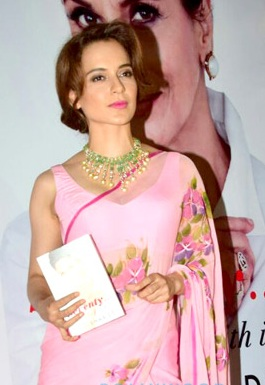 Kangana Ranaut graces the launch of Shobha De’s book, snapped in Mumbai on (13 Dec 2017).